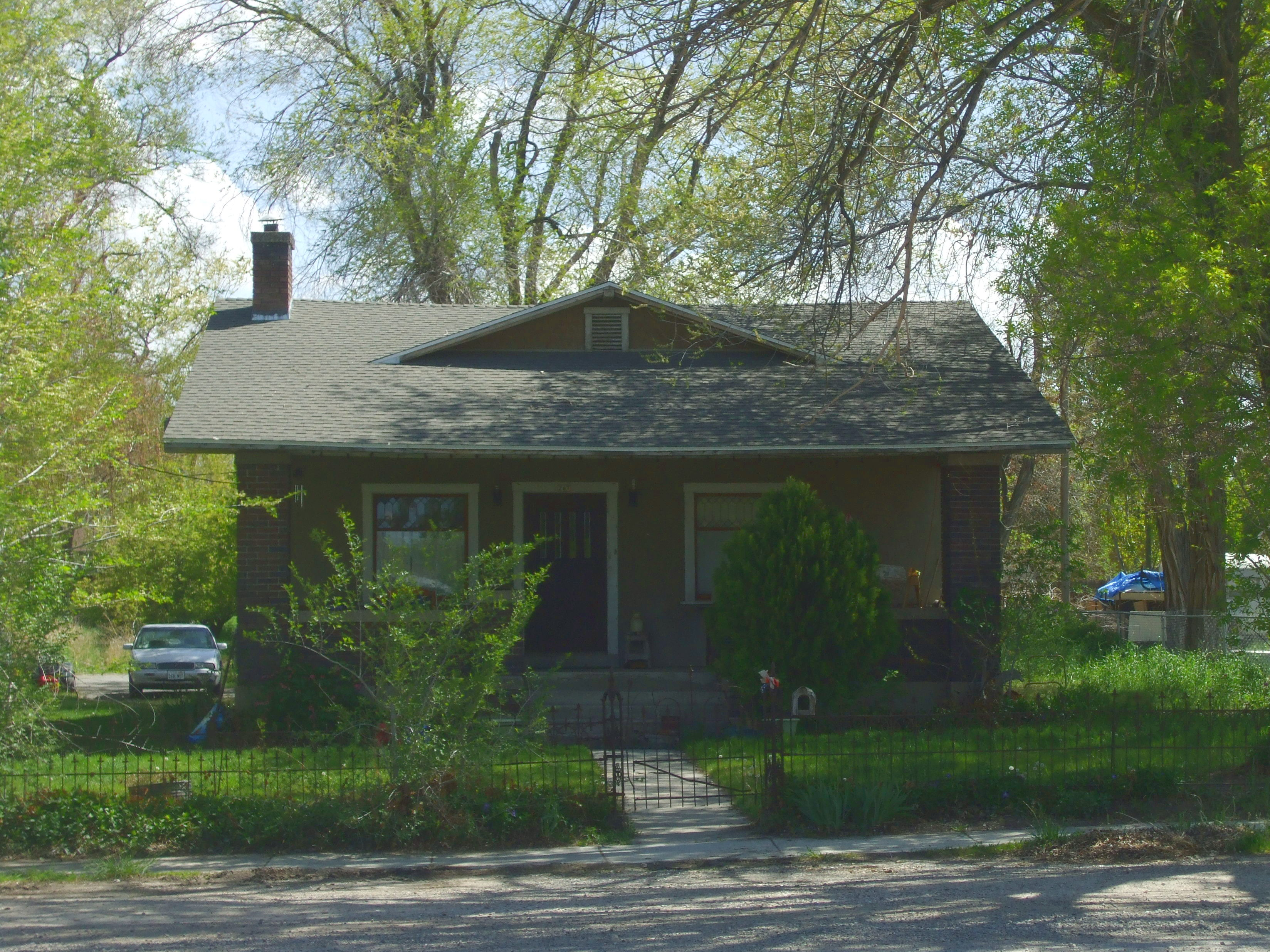 The Hilda Erickson House, a historic home in Grantsville, Utah, United States.